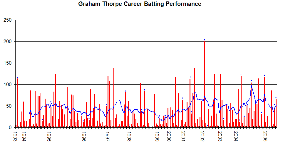 This graph details the Test Match performance of Graham Thorpe. It was created by Raven4x4x. The red bars indicate the player's test match innings, while the blue line shows the average of the ten most recent innings at that point. Note that this average cannot be calculated for the first nine innings. The blue dots indicate innings in which Thorpe finished not-out. This graph was generated with Microsoft Excel 2002, using data from Cricinfo and .au.